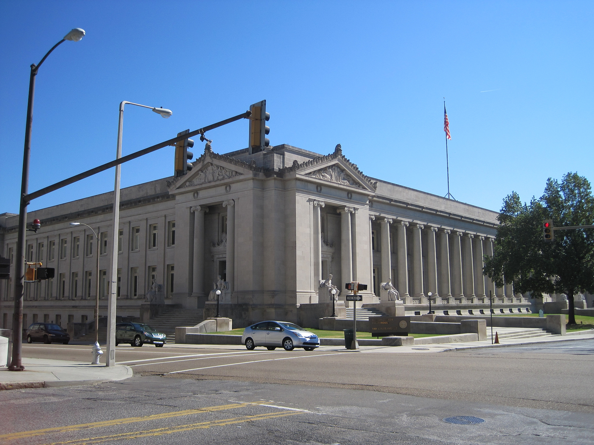 Shelby County Court on Second Street at Adams Avenue in Memphis, Tennessee.